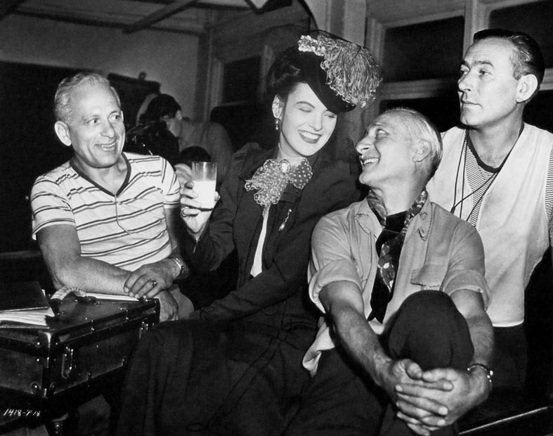 L. to R. : Robert Lazlo (camera assistant), Ella Raines, Frank Heisler (camera assistant), and cinematographer Paul Ivano, on the set of The Suspect (1944) - publicity still